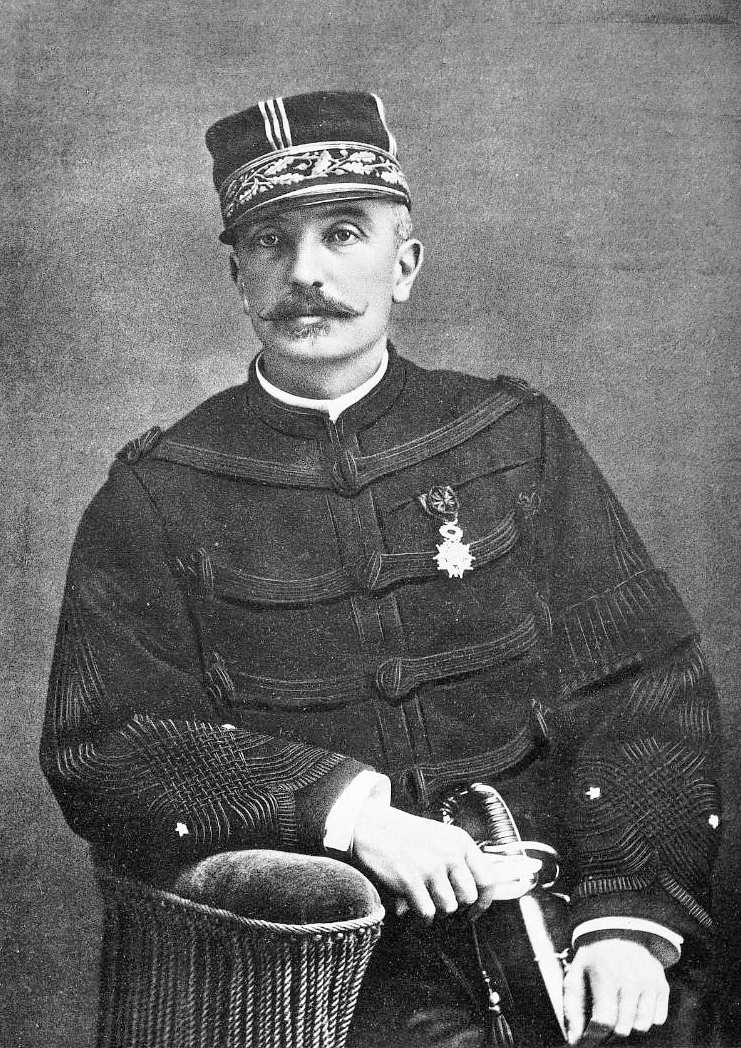 French general Raoul Le Mouton de Boisdeffre (1839-1919). Illustration from L'Œuvre d'art, October 1893.